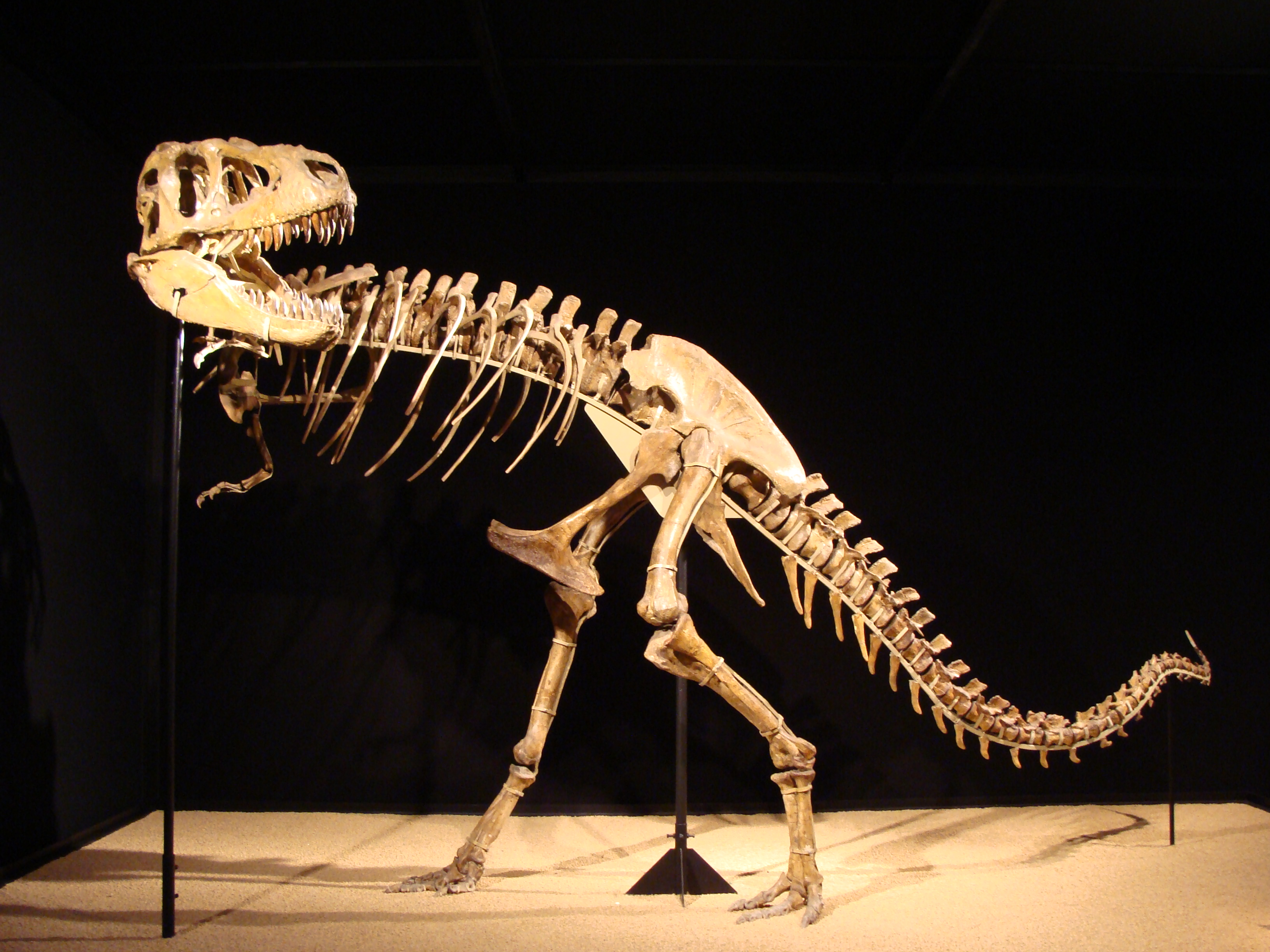 Tarbosaurus bataar in the exhibition "Dinosaures. Tresors del desert de Gobi" ("Dinosaurs. Treasures of Gobi Desert") in CosmoCaixa, Barcelona.